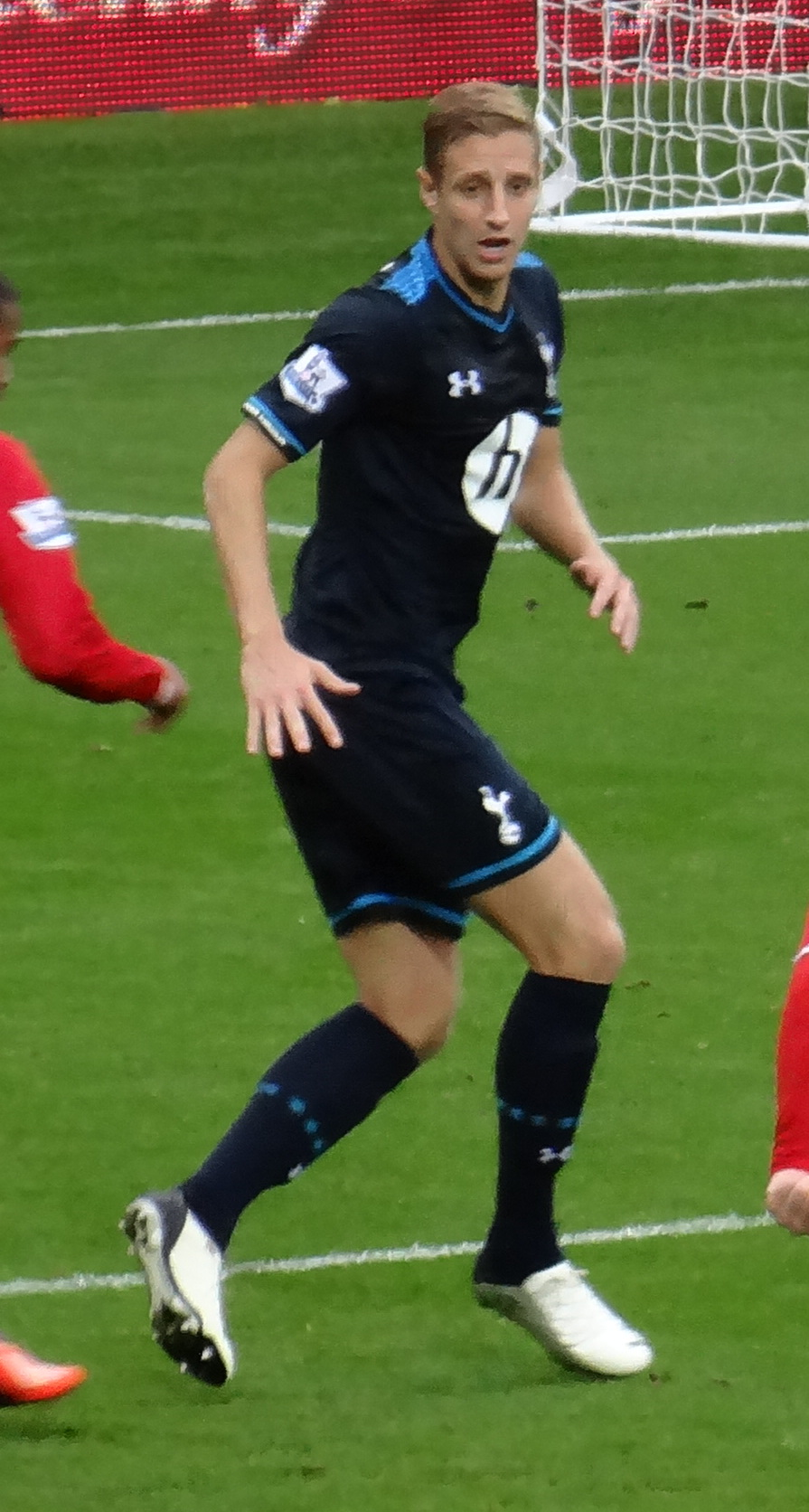 Paulinho playing for Tottenham Hotspur.